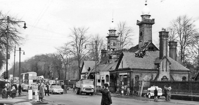 Botanic Gardens Station, Glasgow (remains). View NW on Great Western Road. This had been the ornate surface building of a station below ground, closed to passengers back on 6/2/39. It was on the ex-Caledonian Stobcross - Maryhill loop, which survived until 6/10/64. (In fact, when I took this photograph the building was still smouldering from a serious fire that engulfed it the night before!)